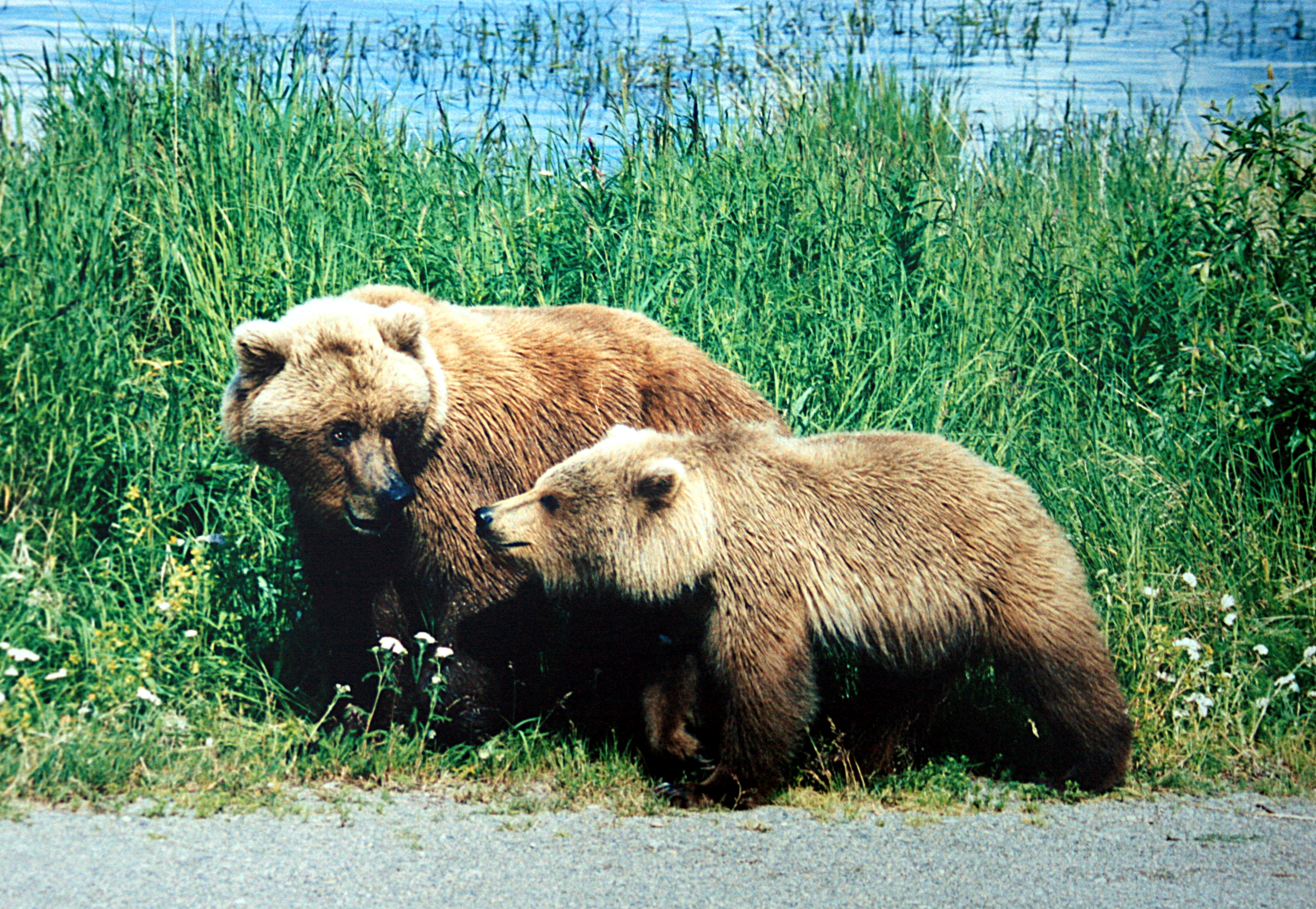 Grizzly Bears at Brooks Falls Katmai National Park. The picture is a digital picture of my old film picture.